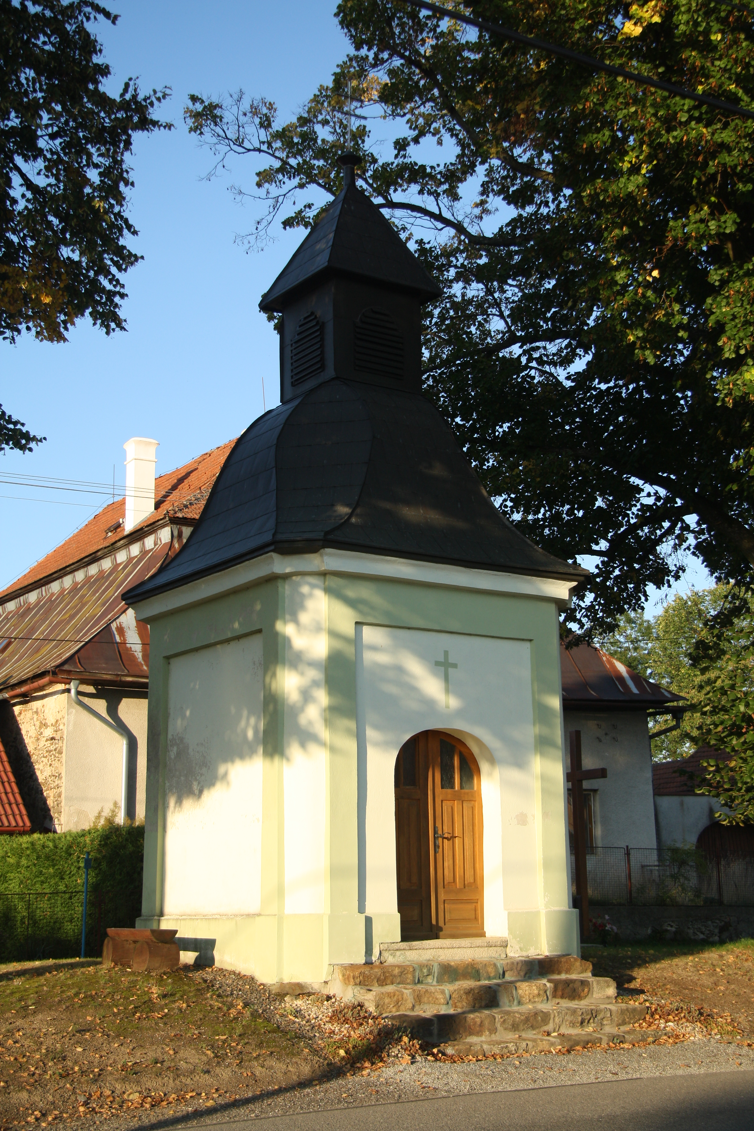 Cultural monument chapel in Kněževes, Žďár nad Sázavou District.